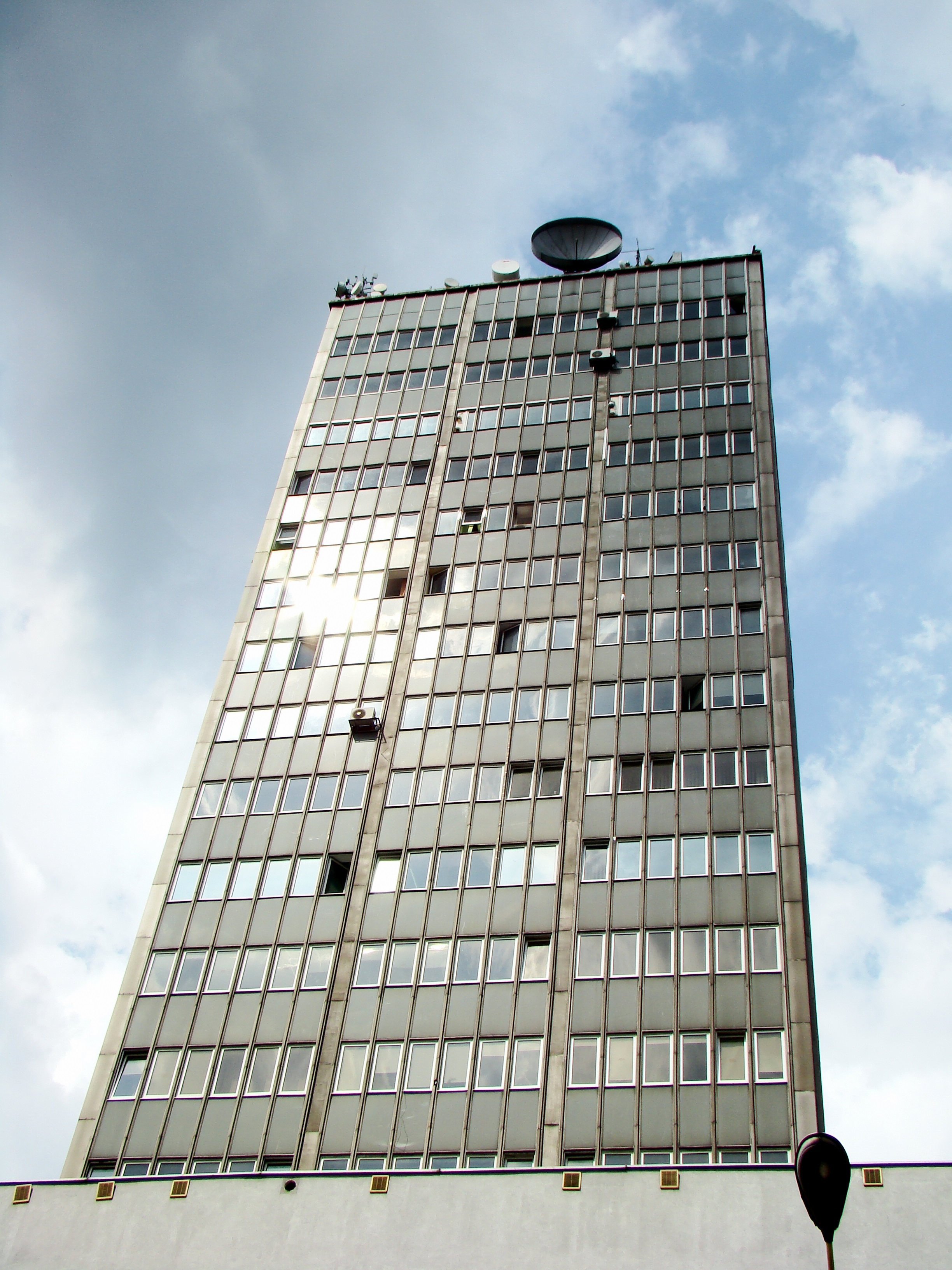 PRITV skyscraper, Szczecin, Poland